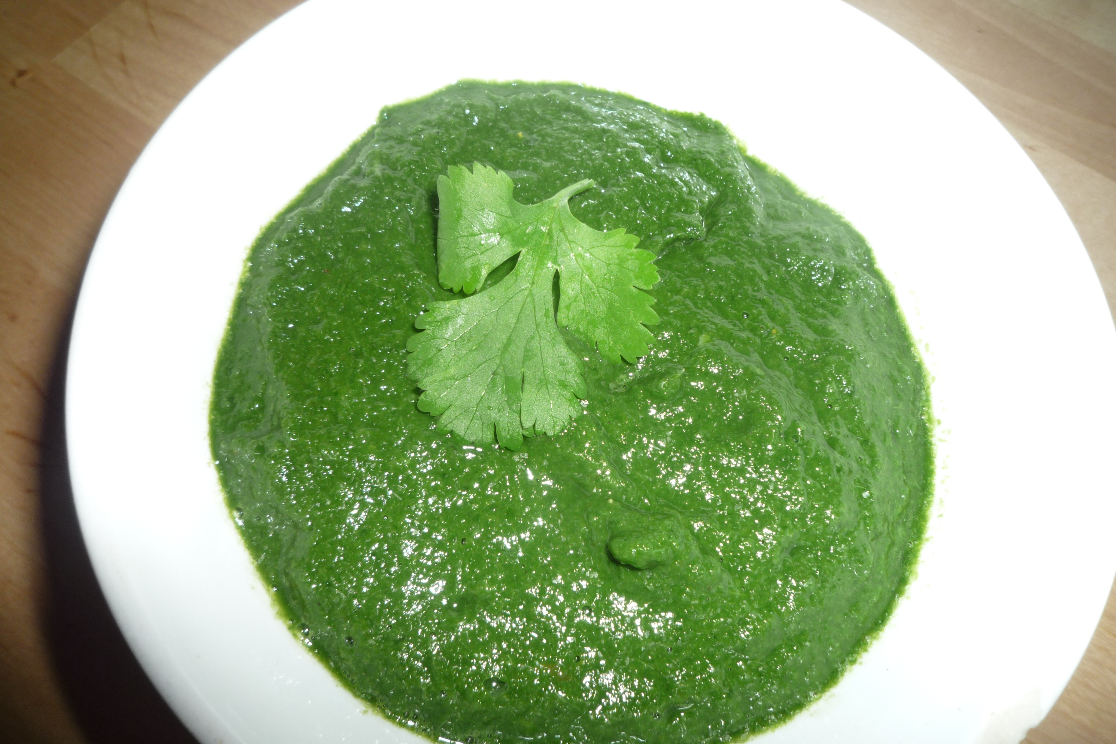 dhania chtuni